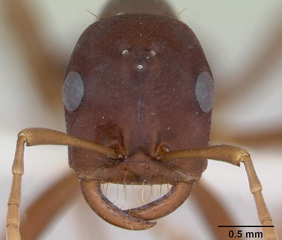 Head view of ant Polyergus samurai specimen casent0173324.